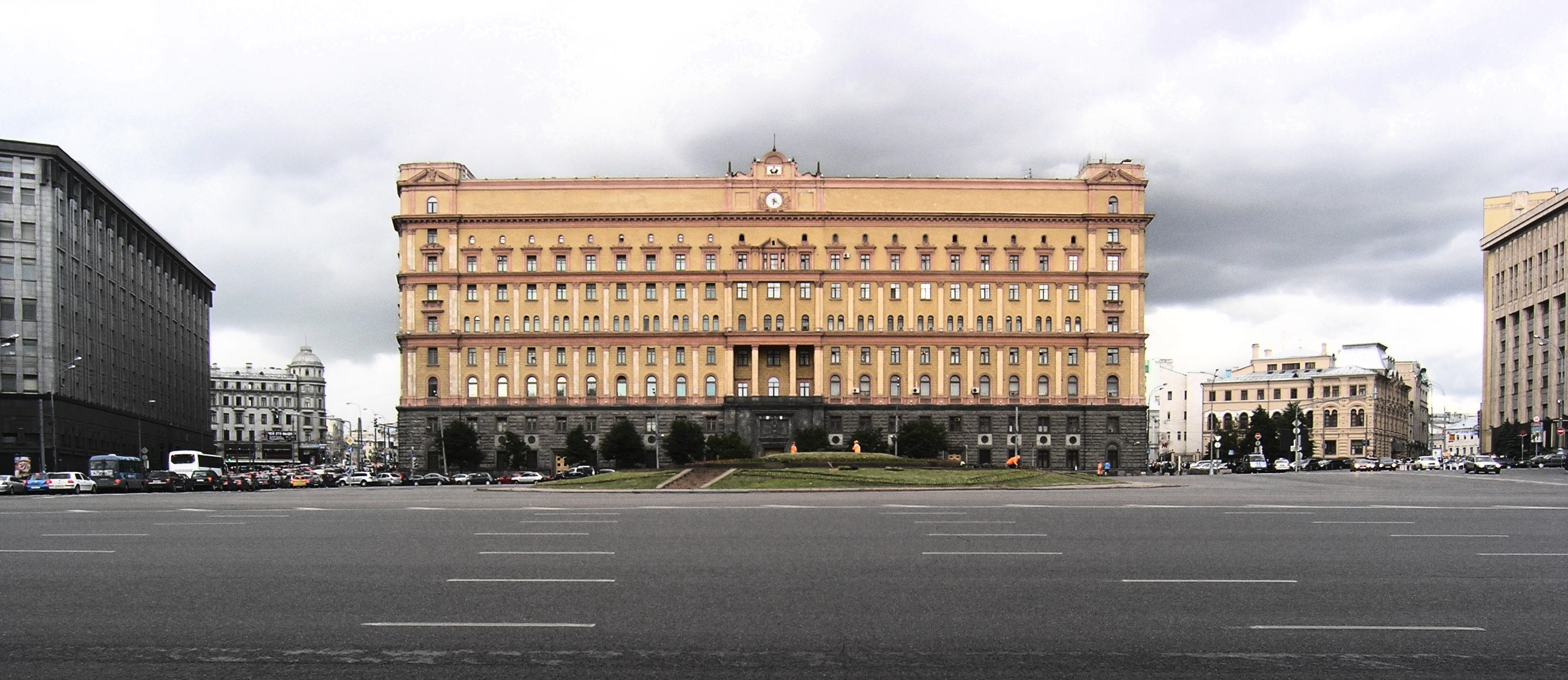 Lubyanka Square in Moscow